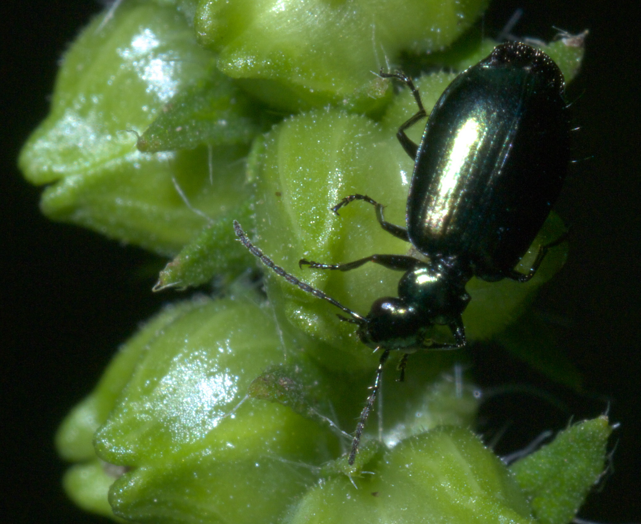 Lebia viridis, Genus: Colorful Foliage Ground Beetles, Size: about 4.5 mm, ID Confidence: 75